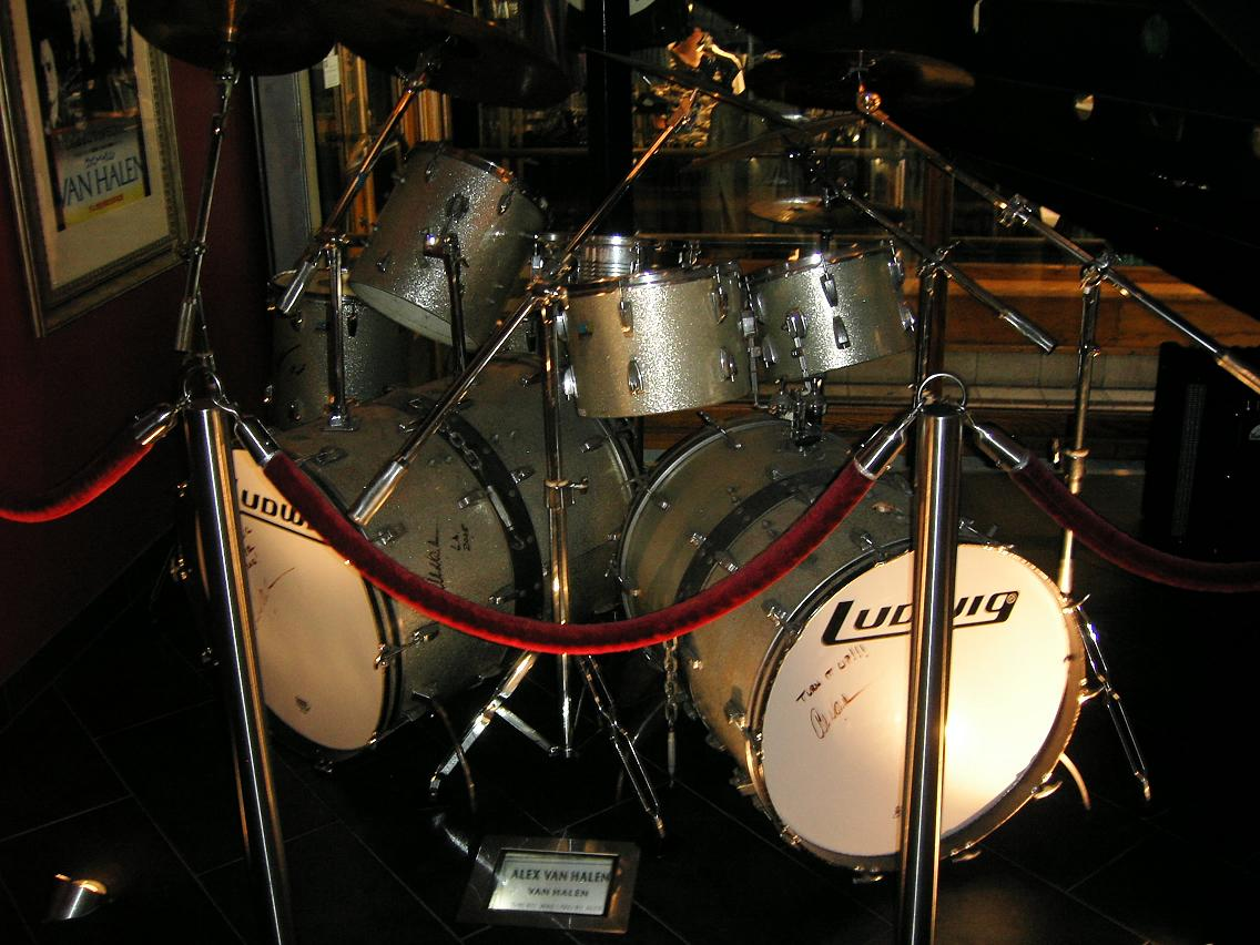 Alex van Halen This kit was used by Alex to record the first VAN HALEN LP. It was also used on their tour to support the LP.